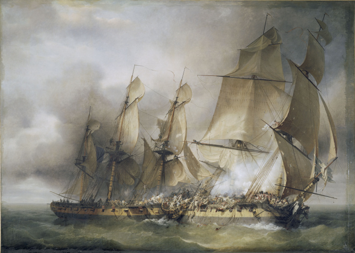 French corvette Bayonnaise boarding HMS Ambuscade during the Action of 14 December 1798